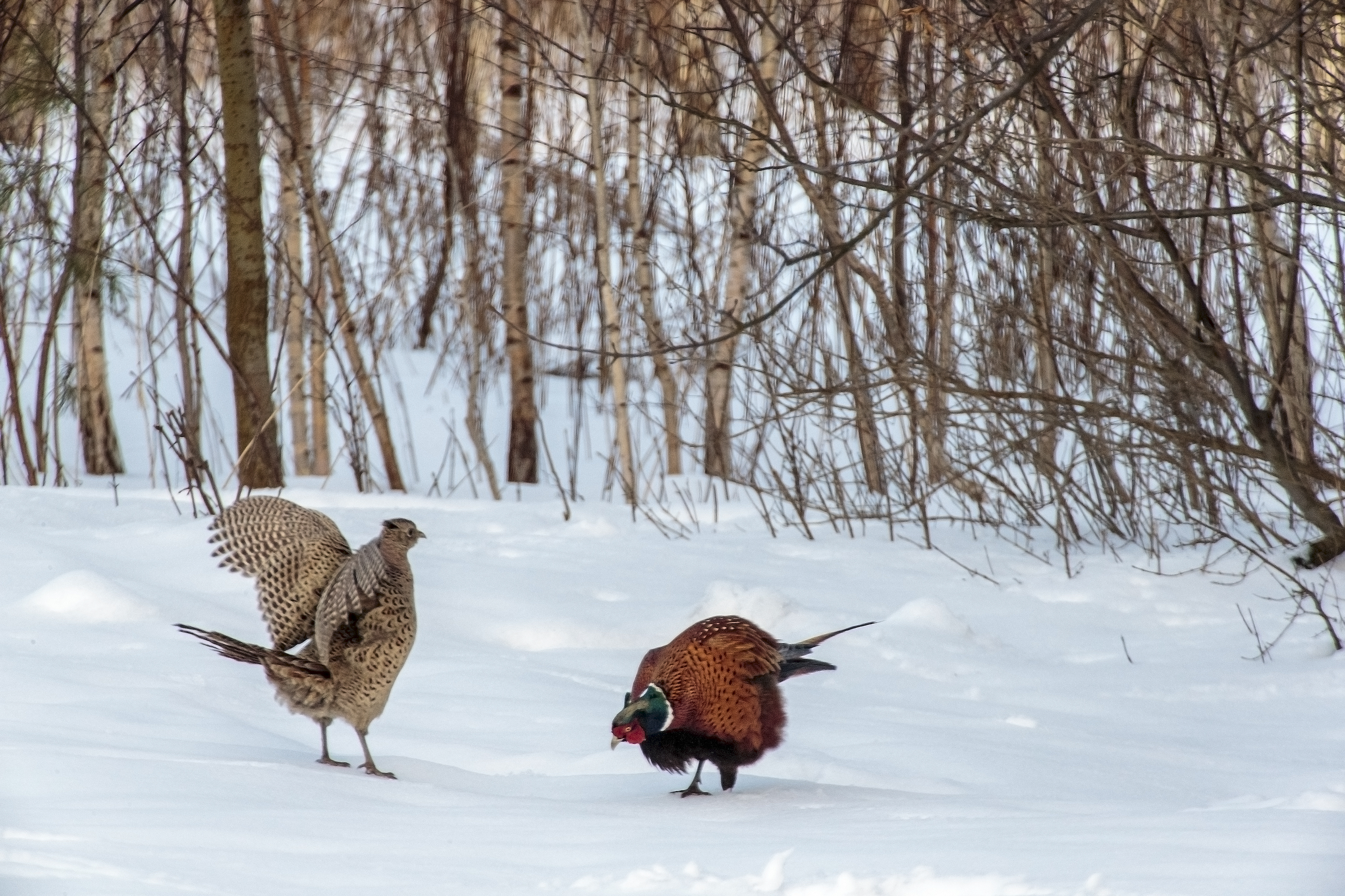 The Common Pheasant, Lodz(Poland)